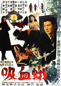 1956 Japanese movie poster for 1956 Japanese film Vampire Moth (Kyuketsuki-ga).